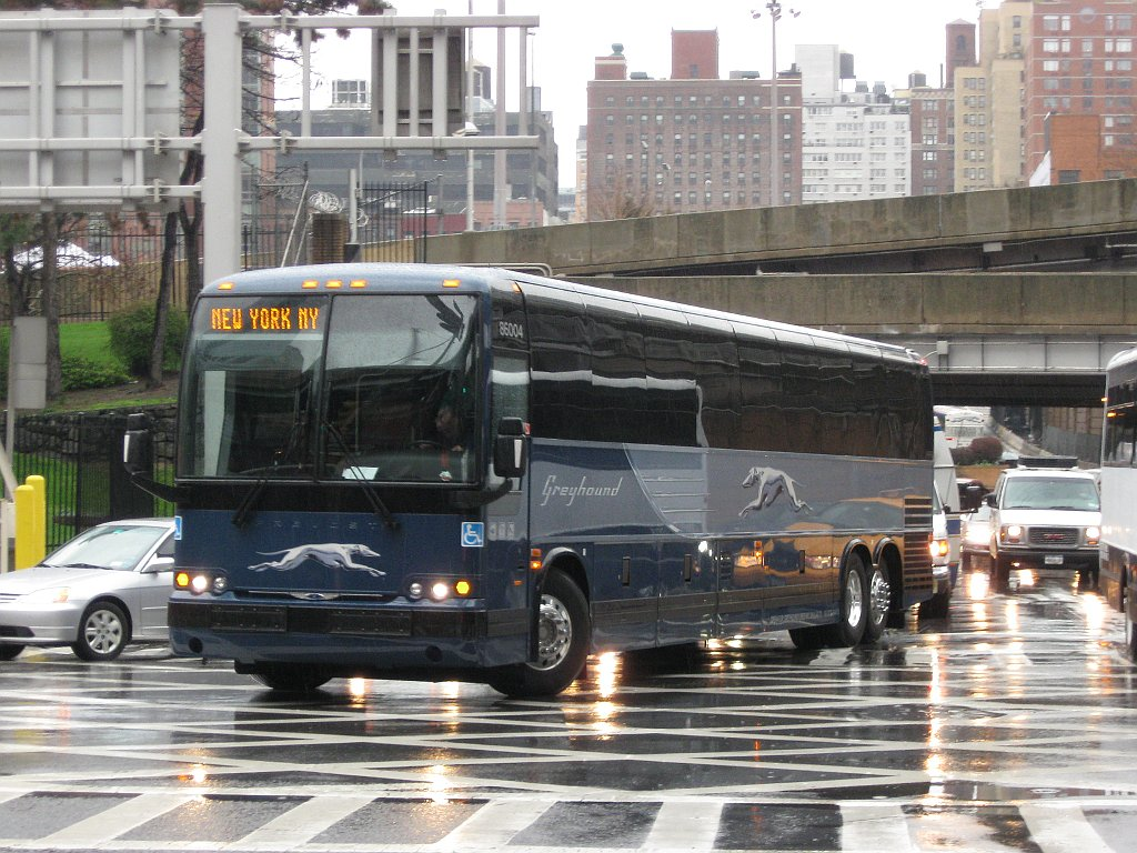 Greyhound Lines #86004, in the latest livery introduced in 2009, arrives in New York City.